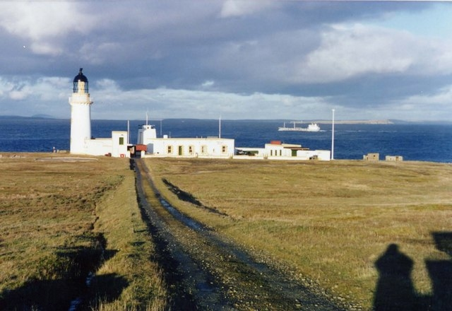 Stroma Lighthouse (or Swilkie Point lighthouse) with Pentland Firth & Orkney in distance. Stroma, Pentland Firth, Scotland